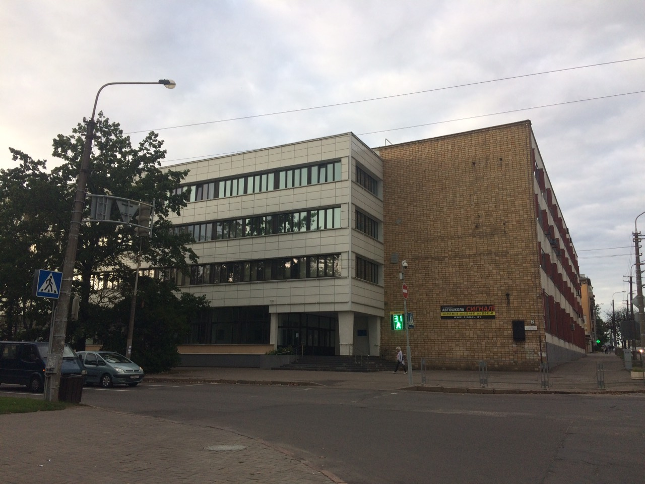 Headquaters of “Precise Electromechanics Factory” (2 Kulman Street, Minsk, Belarus; 16th of August, 2019)